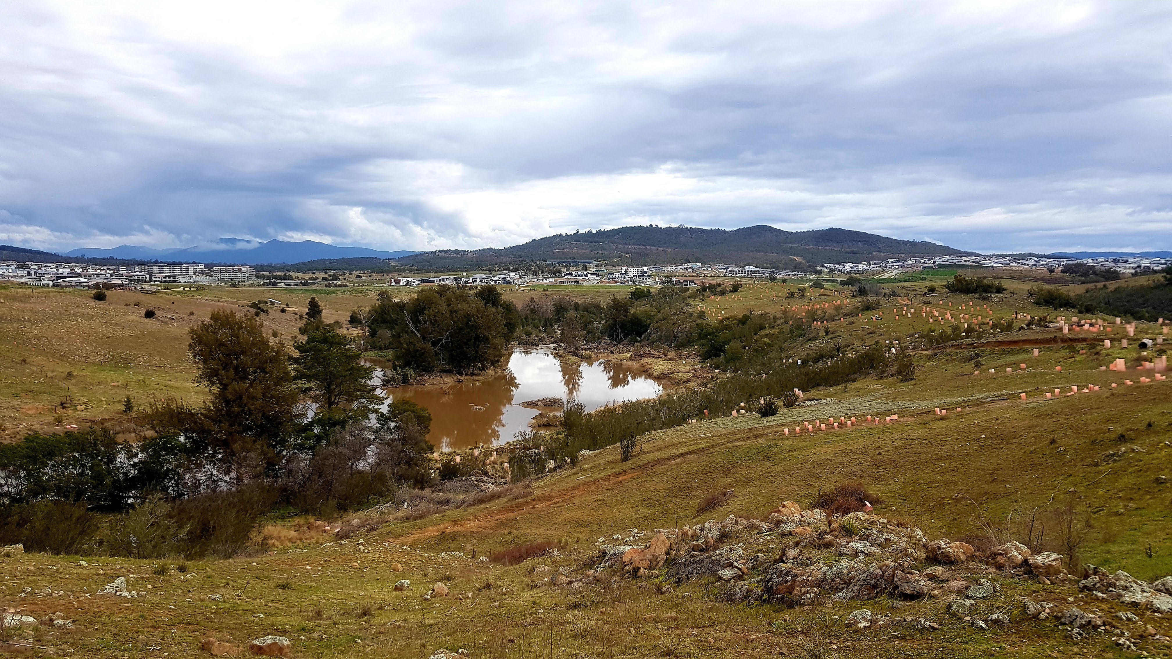 Overlooking Molonglo River from near the Barrer Circuit Trailhead. New suburbs of Coombs, Wright, and Denman Prospect (L to R) visible with Mt Stromlo and the Tidbinbilla Range as their backdrop.